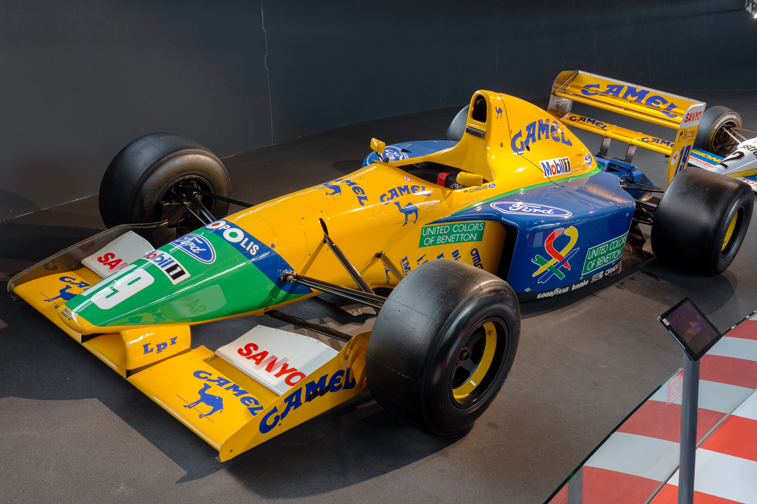 Michael Schumacher Private Collection: Benetton B191B (chassis 06) of Michael Schumacher